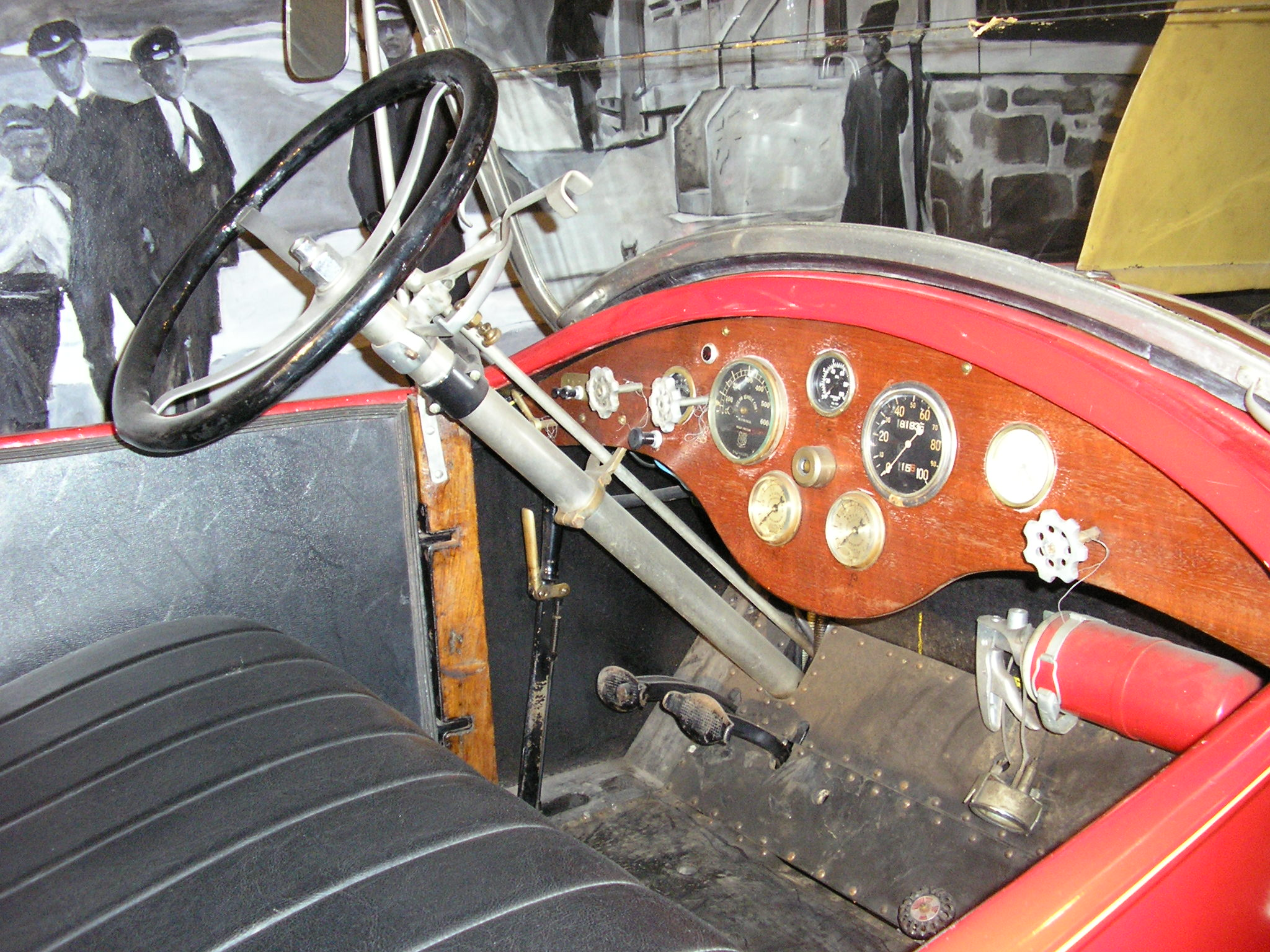 1924 Stanley Steamer Serie 740 Powered by a twin cyliner, double acting steam engine (under the floor in the rear). A kerosene/parafin oil heated boiler in the front giving 20-30 hp. Engine power 100 bhp. Price: 2750 USD. Weight 1774 kg. This car was fitted with more modern headlights in the 1970s to be able to pass Dutch vehicle inspections.